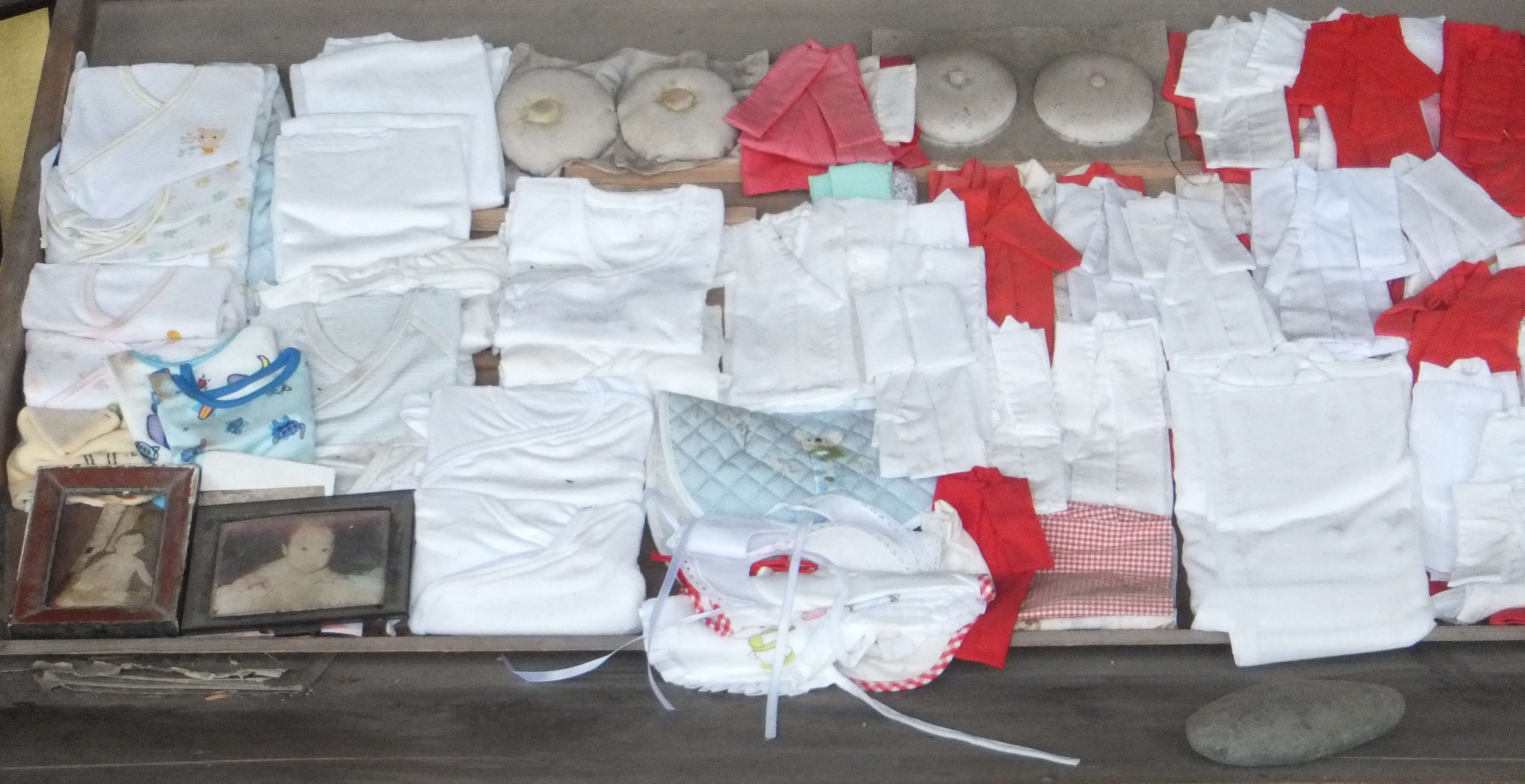 Votive offerings for the goddess of fertility and safe birth in the Mikumari-Shrine (Yoshino, Nara Prefecture, Japan)